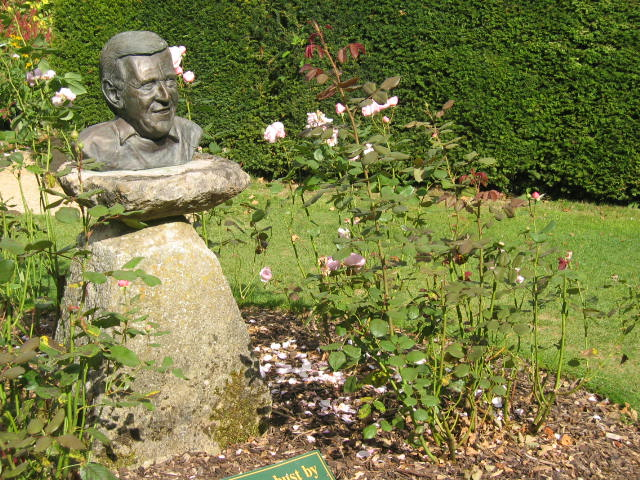 Bust of Geoff Hamilton at Barnsdale, UK in September 2007.